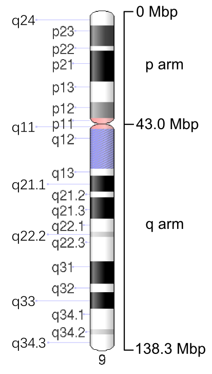 Ideogram of human chromosome 9. G-band, 550 bphs (bands per haploid set). Black and gray: Giemsa positive. Red: Centromere. Light blue: Variable region. Dark blue: Stalk. Mbp: Mega base pairs.